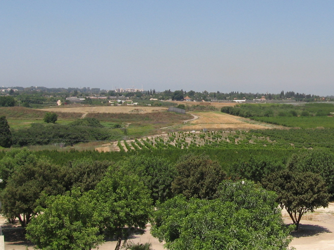 Tell Esur near Karkur, Israel